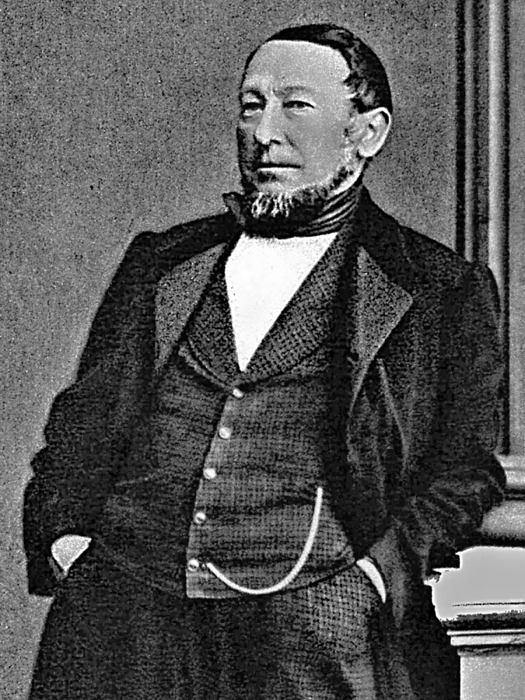 Johann Christian Spindler, (* July 27, 1801 at Kassel; † January 29, 1881 at Hilden), with Johann Wilhelm Kampf (1799–1875), in 1832 co-founder of Messrs. Kampf & Spindler at Elberfeld